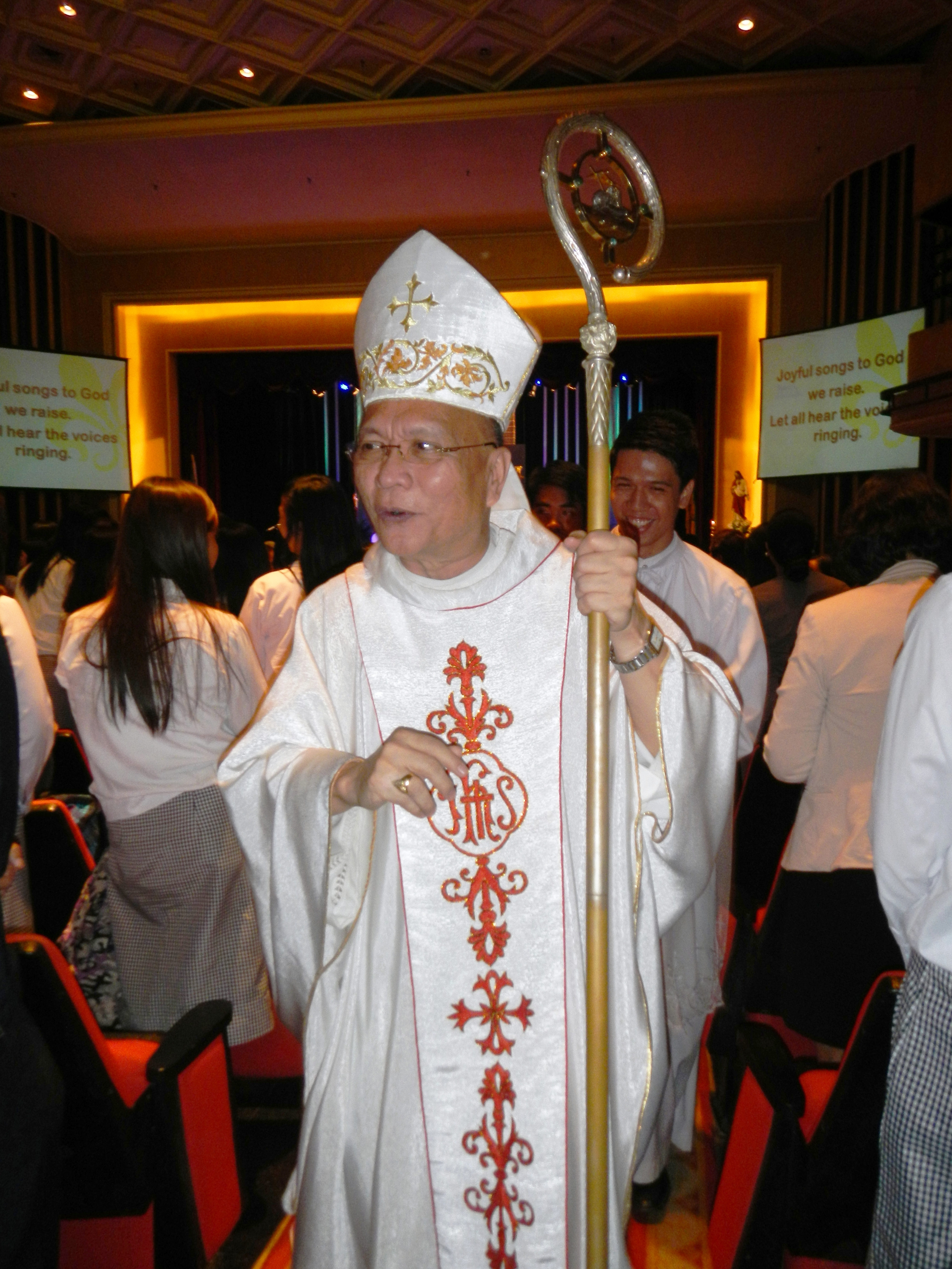 Roman Catholic Diocese of CubaoHonesto Ongtioco St. Paul University Manila wedbsite SPUM 9th President, Sr. Ma. Evangeline L. Anastacio, SPC, Solemn Investiture, Installation preceded by Sr. Lilia Thérèse L. Tolentino, SPC, 8th outgoing President of St. Paul University Manila, incumbent Provincial Superior of the Sisters of Sisters of Charity of St. Paul Sisters of St. Paul of Chartres], Philippine Province [1] 680 Pedro Gil Street, Malate, Manila 1004 Manila, Philippines Evangeline Anastacio, [2] - 1912-2012 Centennial Commemorative Historical Marker, 1927 Chapel of the Crucified Christ (St. Paul University Manila) South Manila Inter-Institutional Consortium.